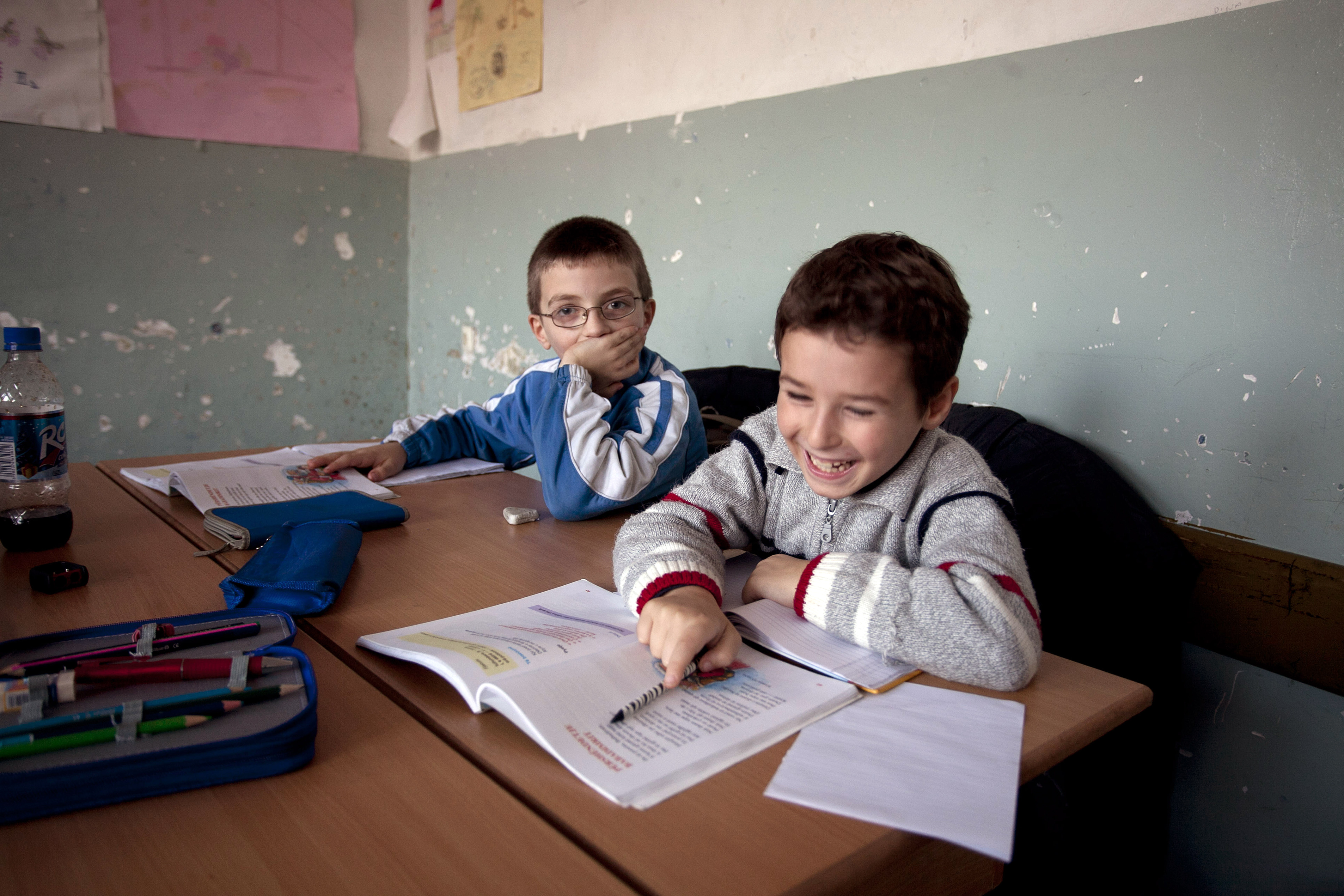 21 December 2010 Prishtina, Kosovo. Children in their 3 grade of Primary School " Emin Duraku " in Prishtina with their Teacher. This school has tens of roma children studying together with Kosovar kids. In this class were 2 of them. (2011 Education for All Global Monitoring Report) -Primary School Emin Duraku, Gjakove, KosovoRomână: Raportul de monitorizare „Educație pentru toți”, 2011: Elevi de clasa a 3-a cu învățătorul lor în școala primară „Emin Duraku” din Gjakove, Kosovo. Școala are câteva duzine de elevi țigani care învață împreună cu copiii kosovari; aceștia doi sunt singurii din clasa lor.